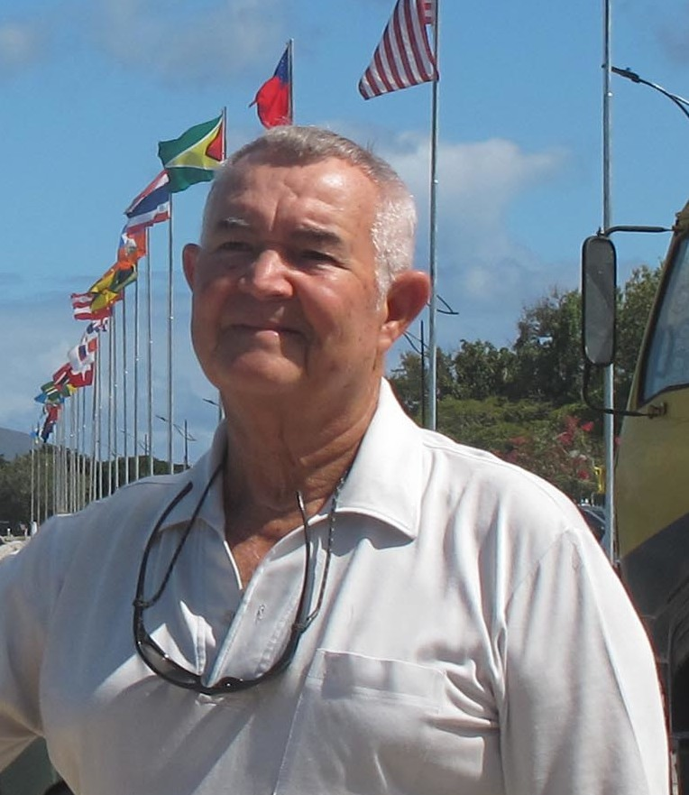 Captain Arthur Anslyn in 2014, on the waterfront next to the port, in Charlestown, the capital of Nevis, West Indies. The Nevis flag is flying in the upper left of the image.